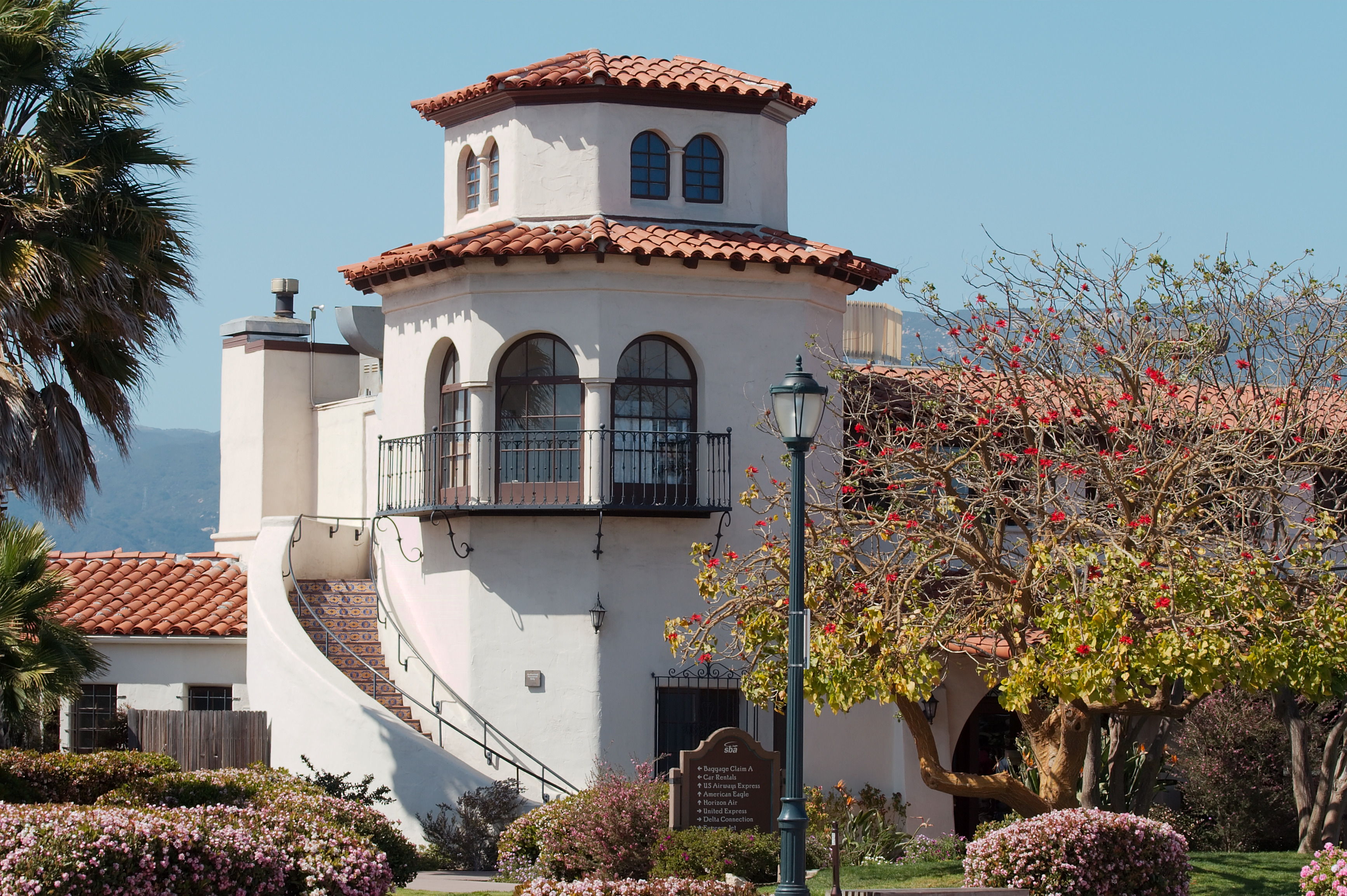 The Santa Barbara Airport (SBA), California.